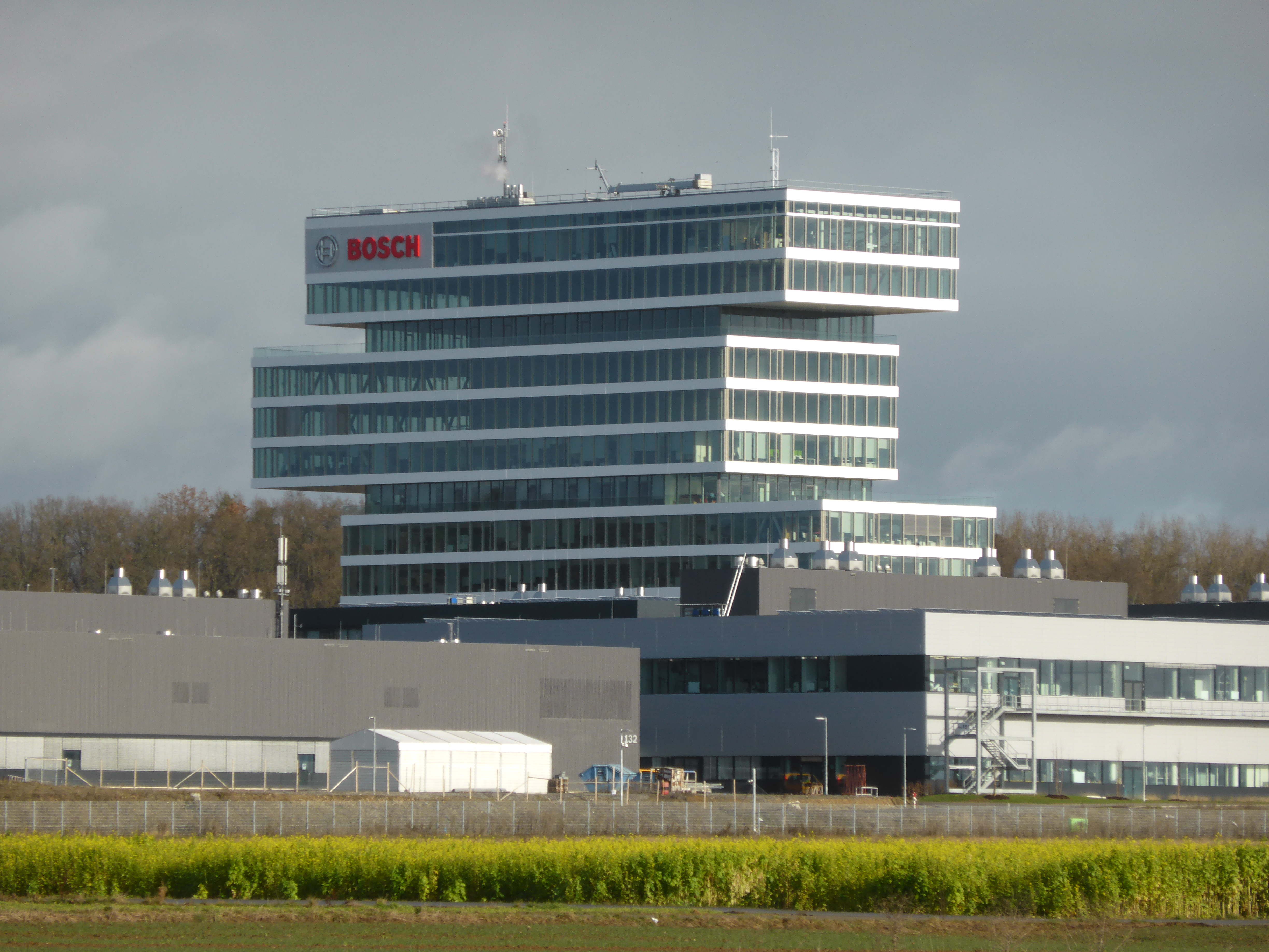 Bosch development center at the airfield Renningen-Malmsheim